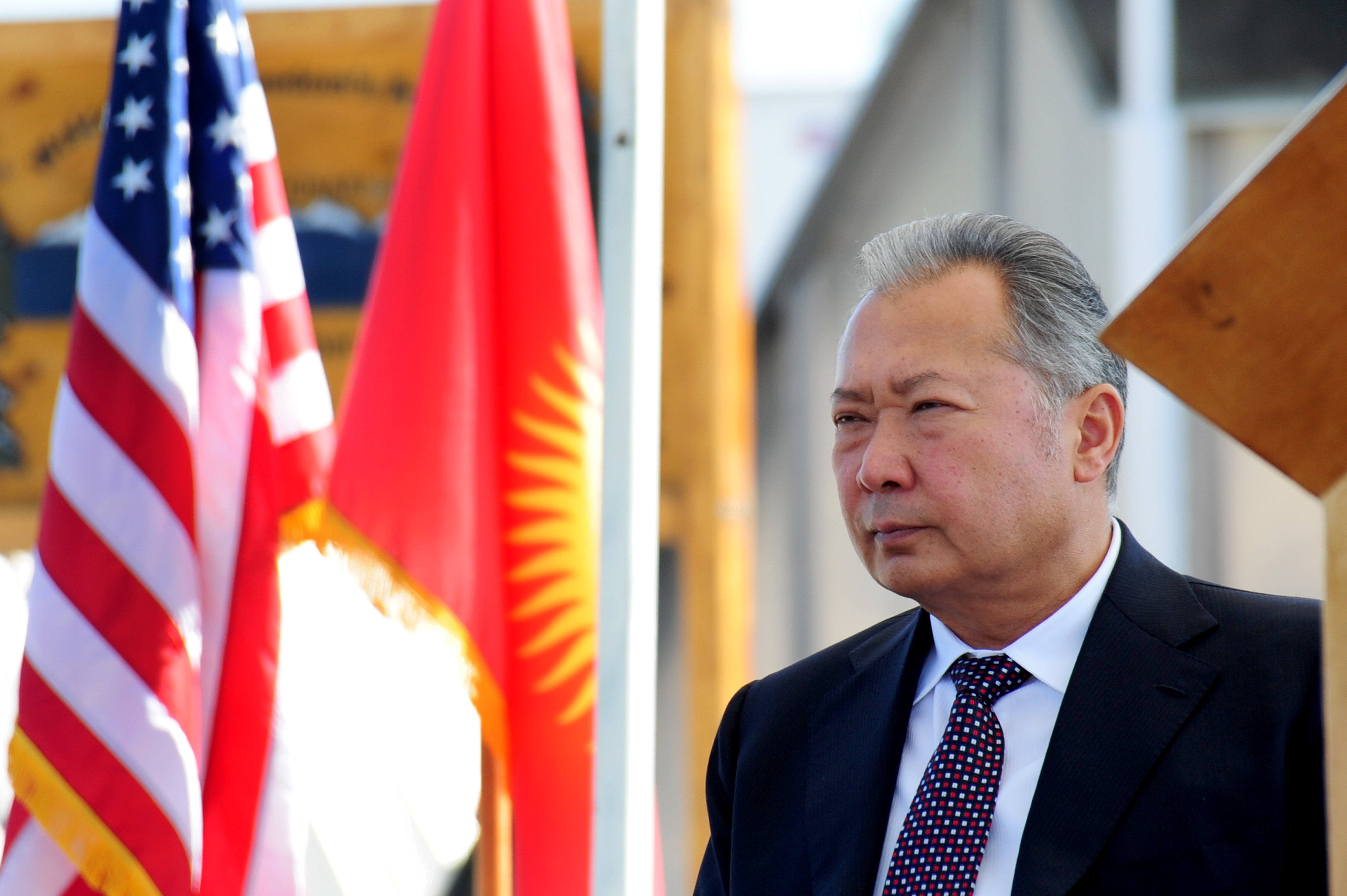 President of Kyrgyzstan, Kurmanbek Bakiyev, signs the guest book marking his visit to the Transit Center on September 11, 2009.